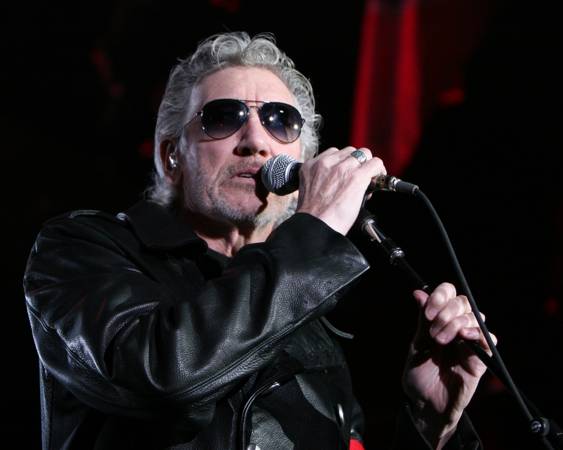 Roger Waters in Barcelona (Spain) during The Wall Live.